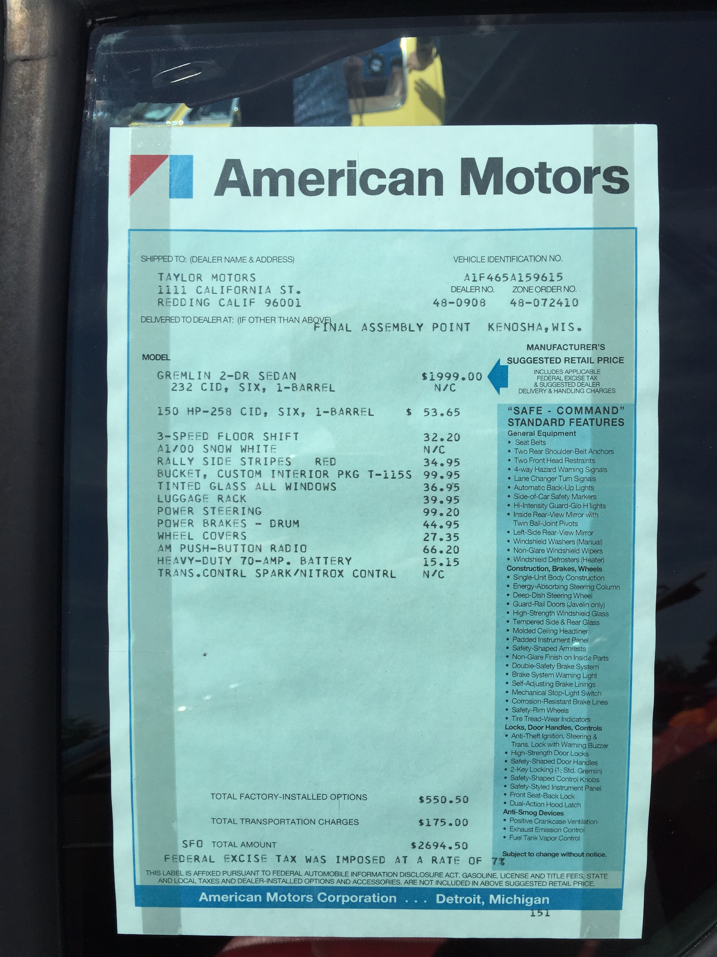 1971 AMC Gremlin, a low priced (suggested base price of $1,999.00) and an economical subcompact built by American Motors Corporation (AMC). This car is in original factory condition and is finished in Snow White with red "rally" side stripes. It has the Custom Interior package in red that includes the high back bucket front seats. It has the optional 258 cu. in. (4.2 L) I6 engine with a 3-speed manual floor shift. It was also ordered from the factory with power steering, power brakes, AM radio, luggage rack, tinted glass, full wheel covers, and a heavy-duty battery. Total suggested retail price was $2694.50, including the transportation charges. It was sold by Taylor Motors in Redding, California. The car has been upgraded to whitewall tires. Picture taken during the American Motors Owners Association (AMO) annual convention that was held July 2015 near Cleveland, Ohio.